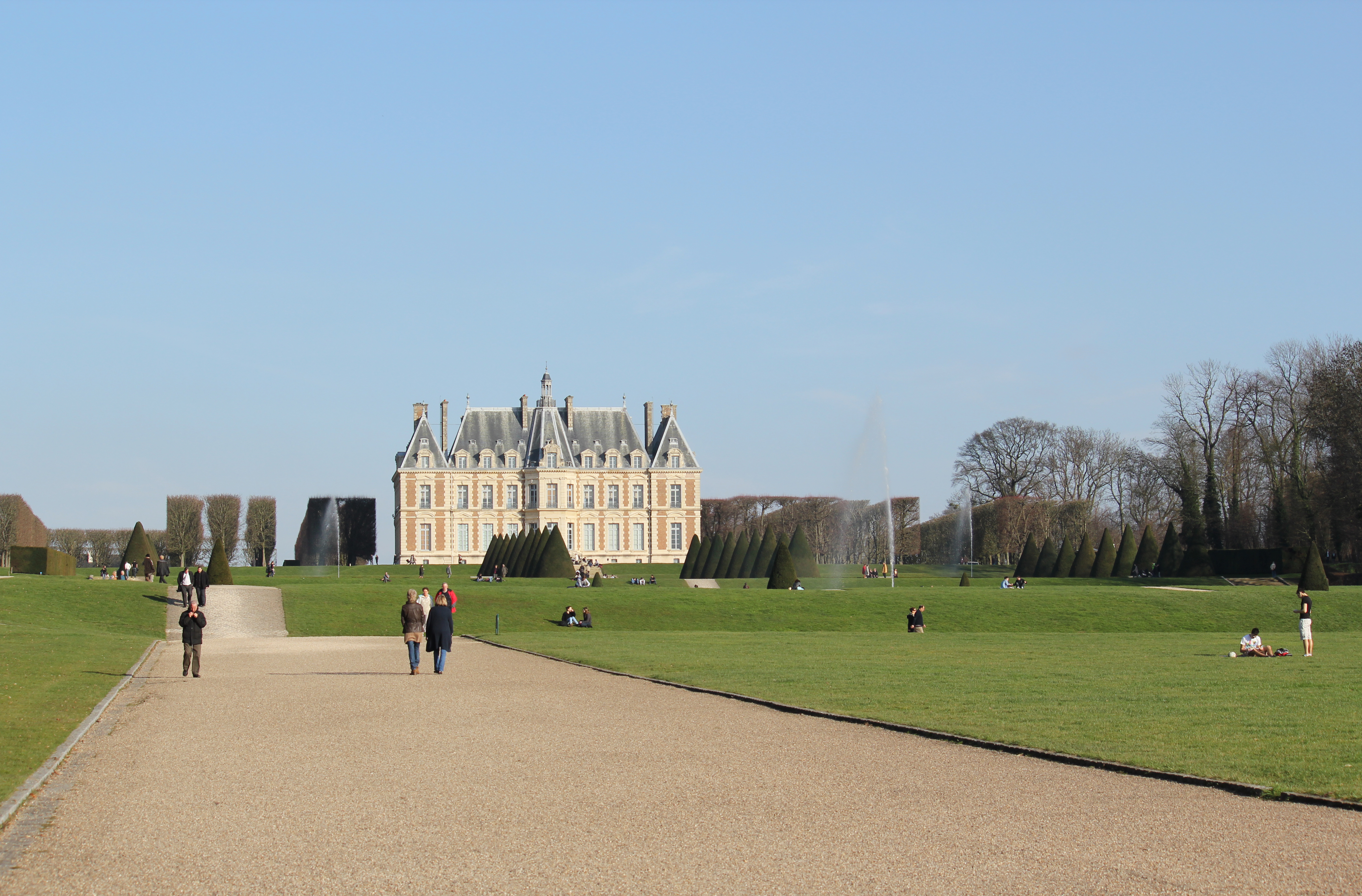 Castle of Sceaux, Paris, France.